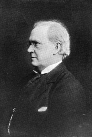 Picture of Sir Horace Lamb, the British physicist